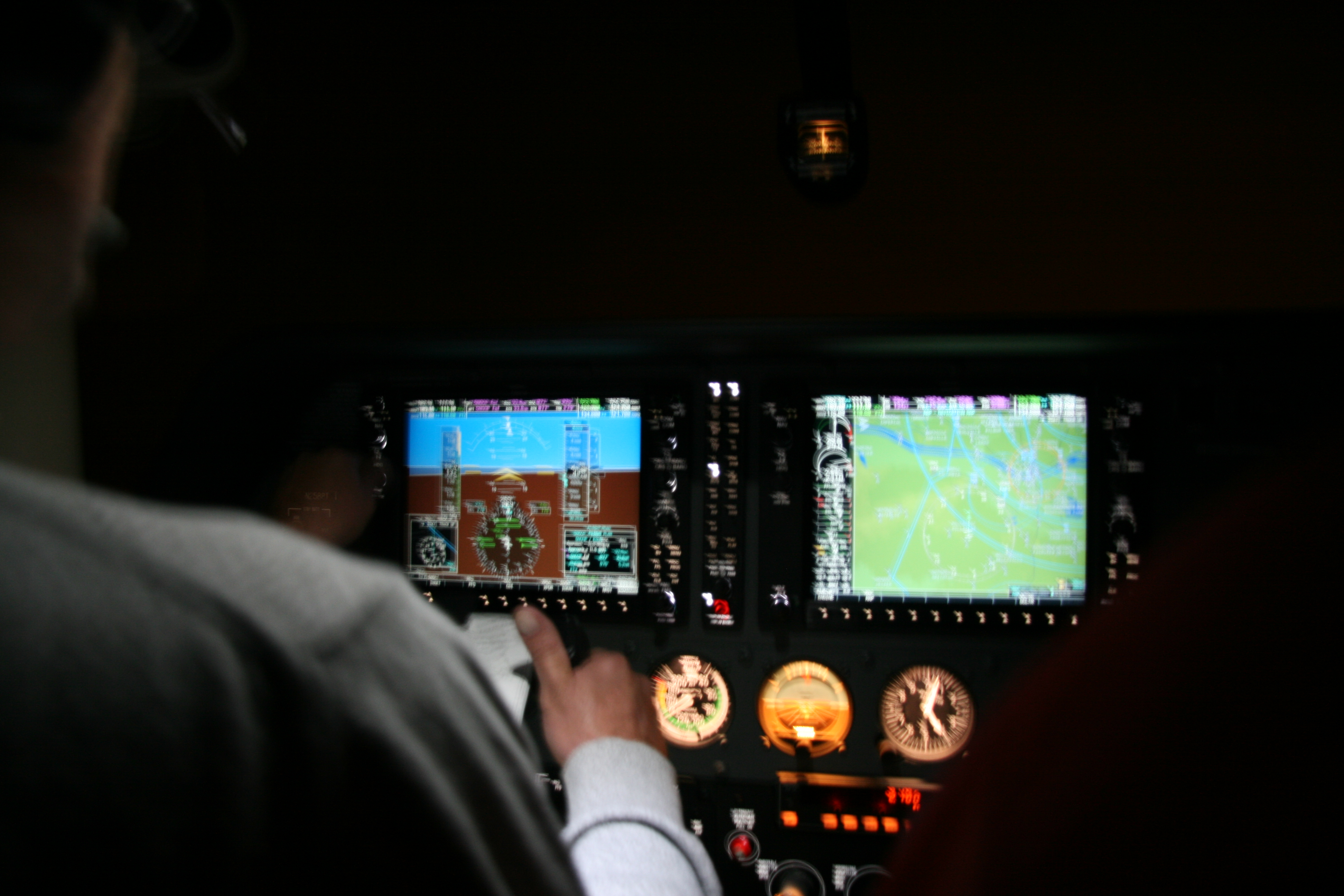 random pic from instrument training flights. i fly at least every tuesday night, and can't get enough of it!